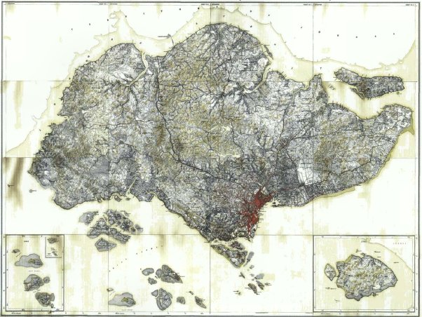 A composite map of Singapore with islands (including insets), made up of 16 small-scale maps, by the Surveyor General of the Federated Malay States and Straits Settlements. The inset on the right shows Pulau Tekong. See Case Concerning Sovereignty over Pedra Branca/Pulau Batu Puteh, Middle Rocks and South Ledge (Malaysia/Singapore): Memorial of Malaysia, vol. 1, p. 143, para. 313.